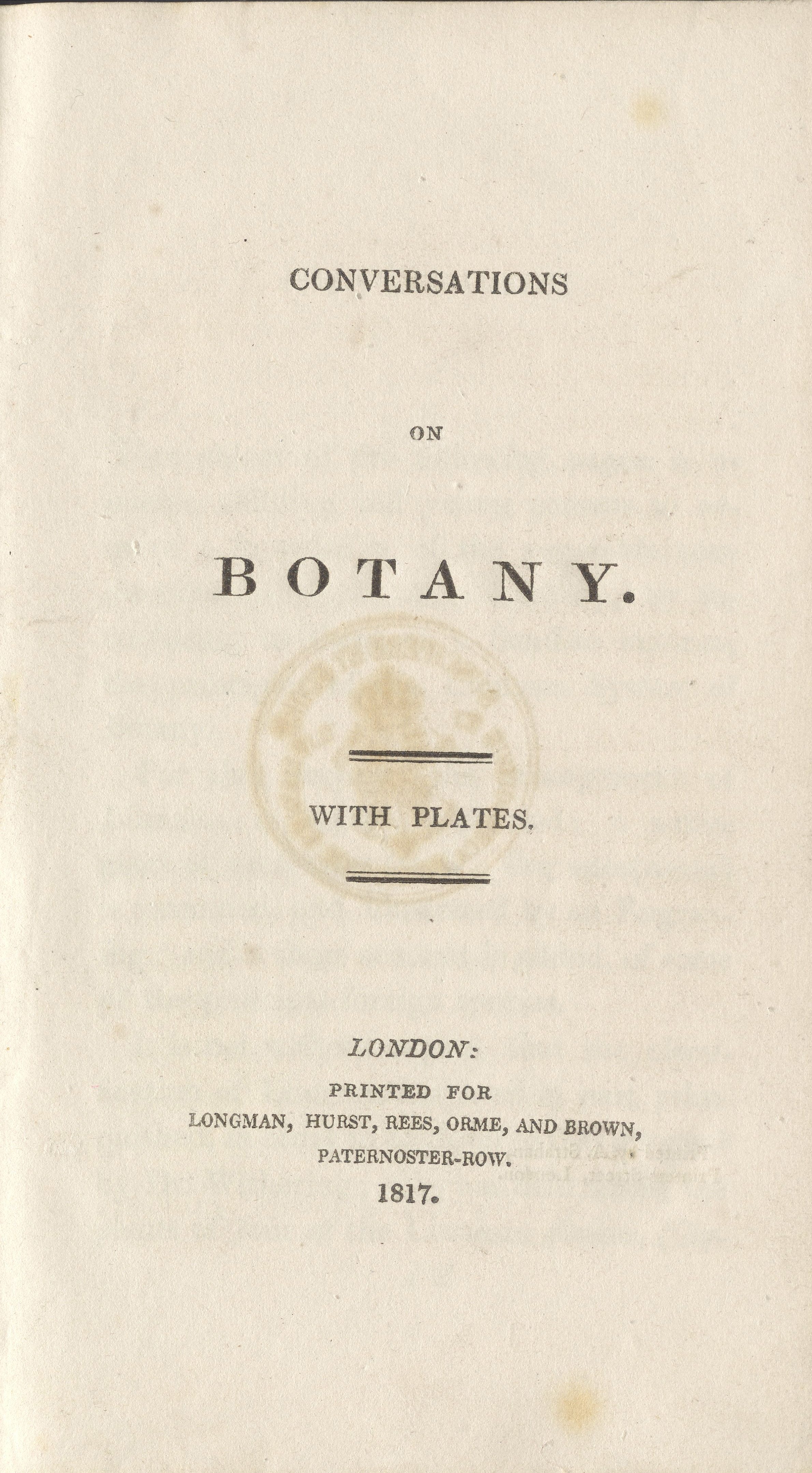 Fitton, Elizabeth, and Sarah Mary Fitton. “Title page” In Conversations on Botany. London, England: Longman, Hurst, Rees, Orme, and Brown, 1817.